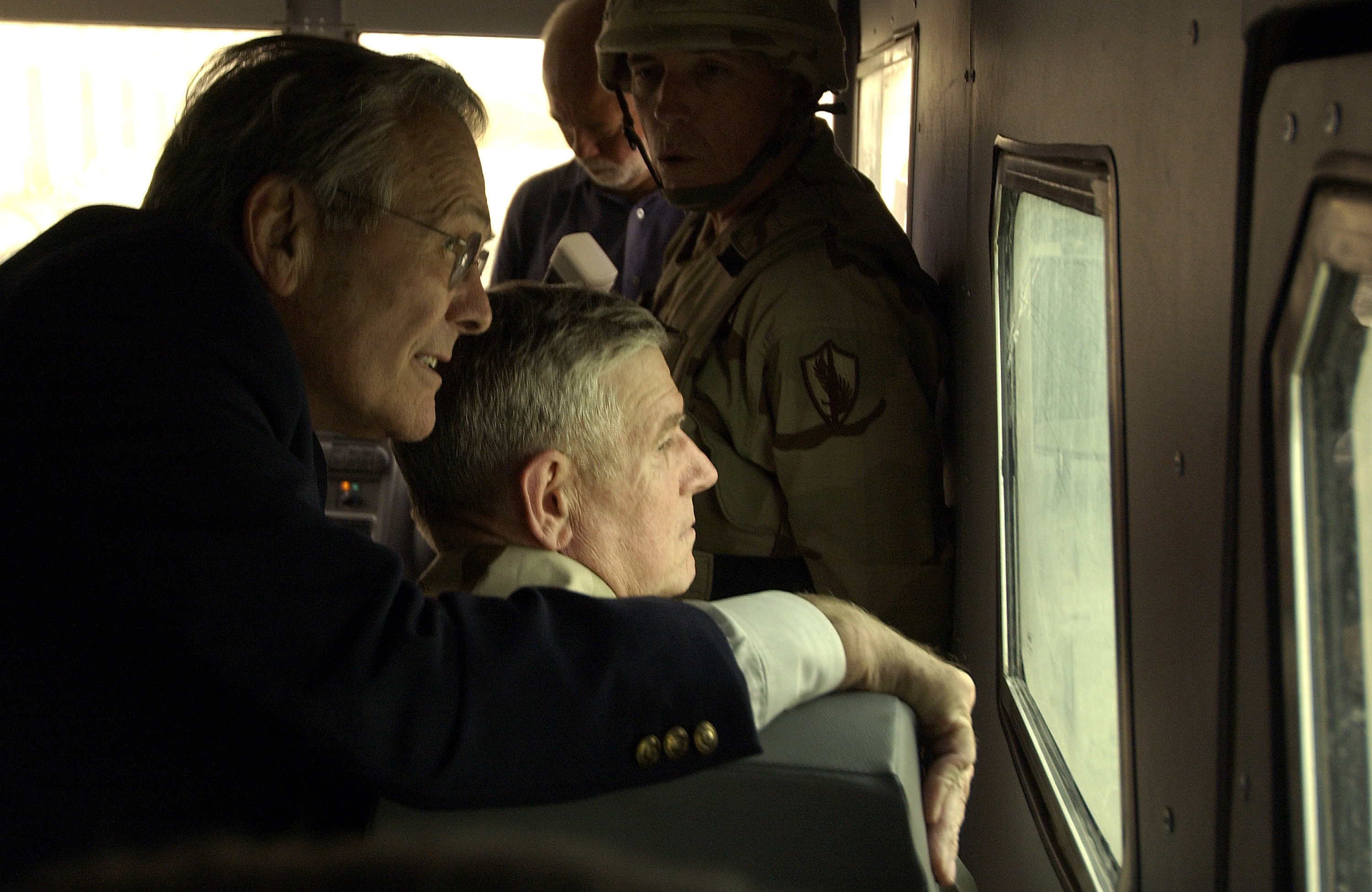 Secretary of Defense Donald H. Rumsfeld and Chairman of the Joint Chiefs of Staff Gen. Richard Myers look at the Abu Ghraib Detention Center while doing a windshield tour of the facility on May 13, 2004. Rumsfeld and Myers are in Iraqi to visit the troops in Baghdad and Abu Ghraib. DoD photo by Tech. Sgt. Jerry Morrison Jr., U.S. Air Force. (Released)